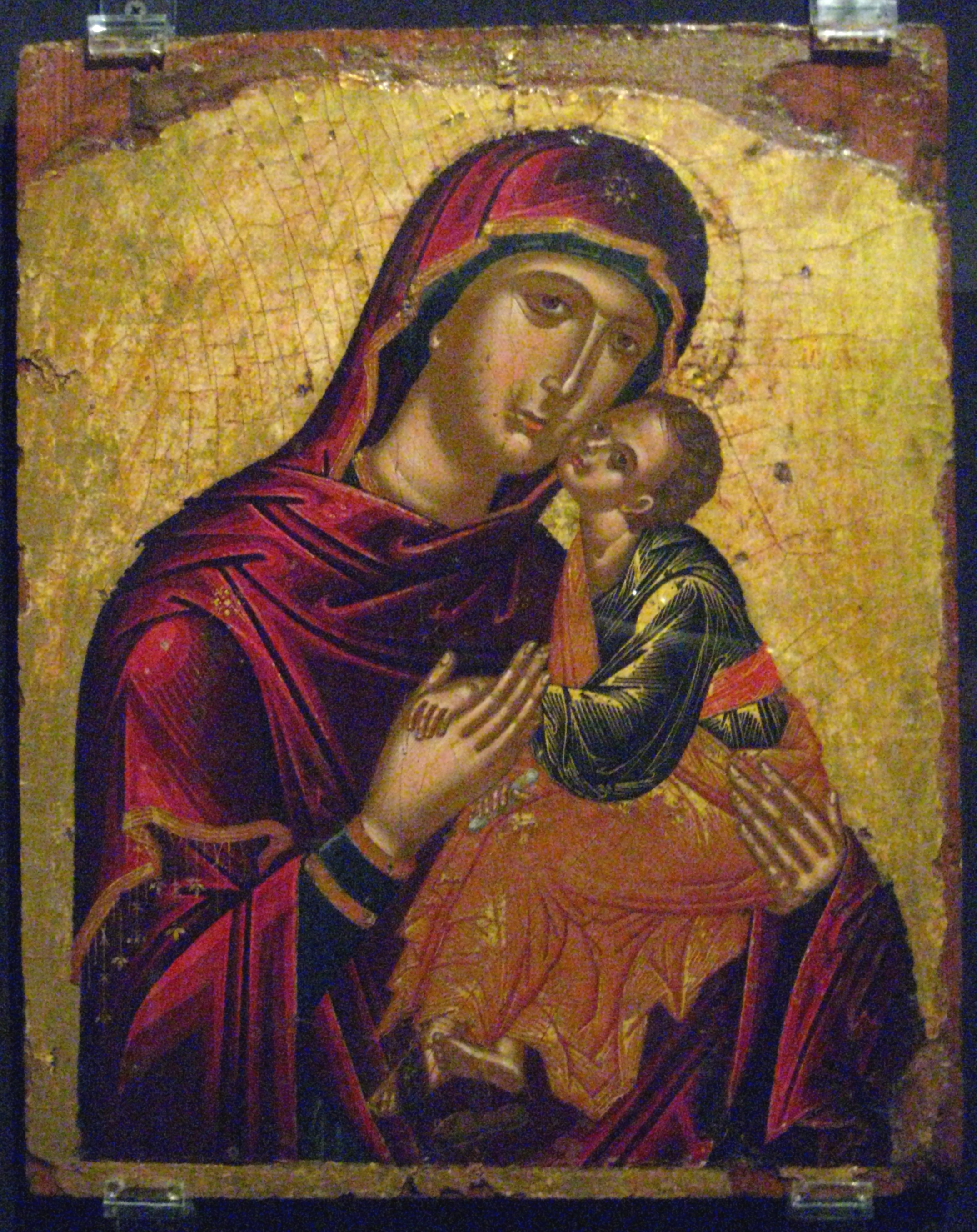 Circle of Andreas Ritzos. Eleusa. 2d h. of 15 c. A.S.Onassis foundation